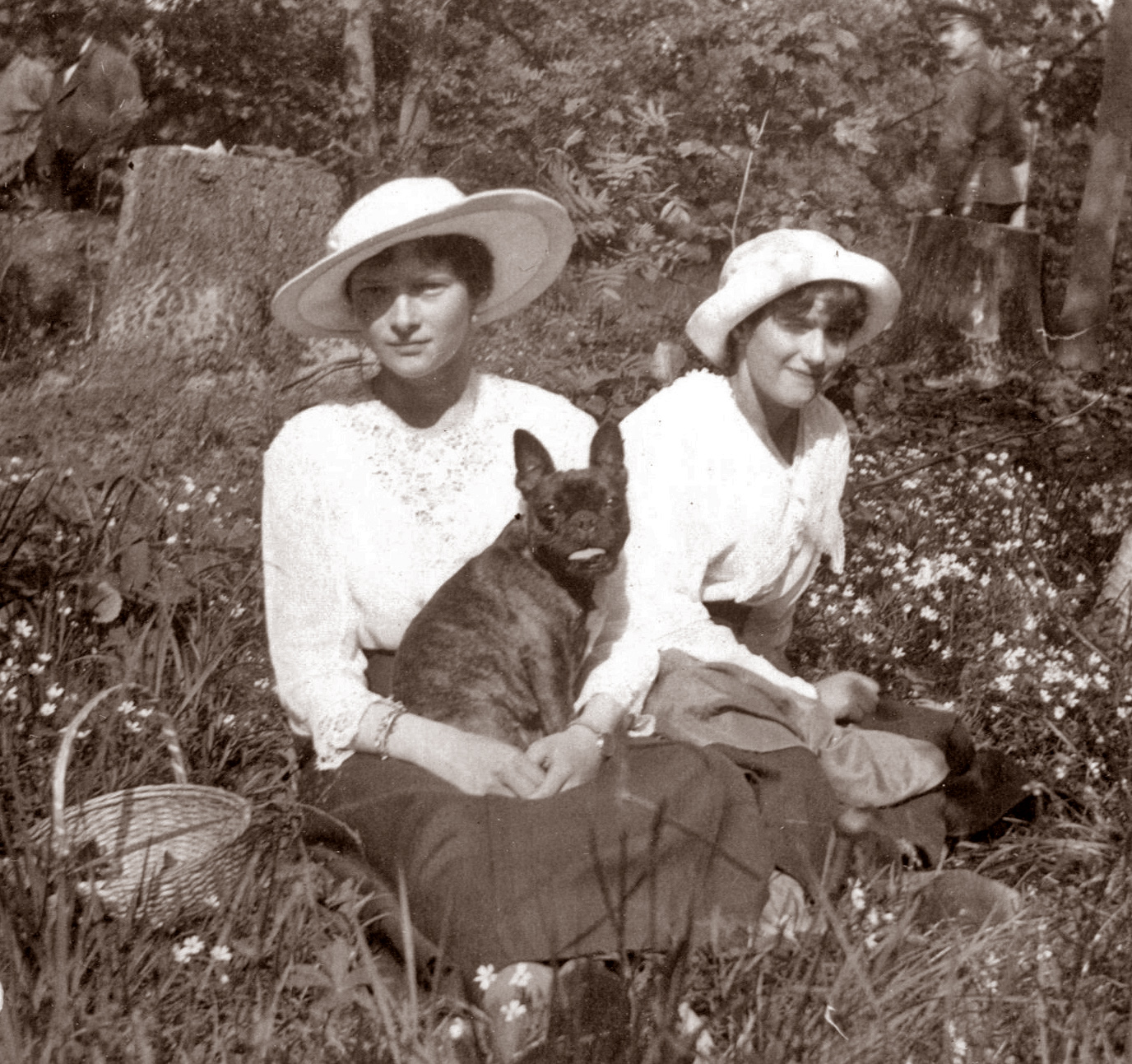 This photograph of Grand Duchess Tatiana and Grand Duchess Anastasia Nikolaevna of Russia in captivity at Tsarskoe Selo in 1917 is from the Alexander Palace Web site. It accompanies an online version of the book Last Days at Tsarskoe Selo by Count Paul Benckendorff. This book appears to be in the public domain since it is has been scanned onto the Web site and was written in 1919. The photographs have been published numerous times as well, so I think they are also most likely in the public domain.